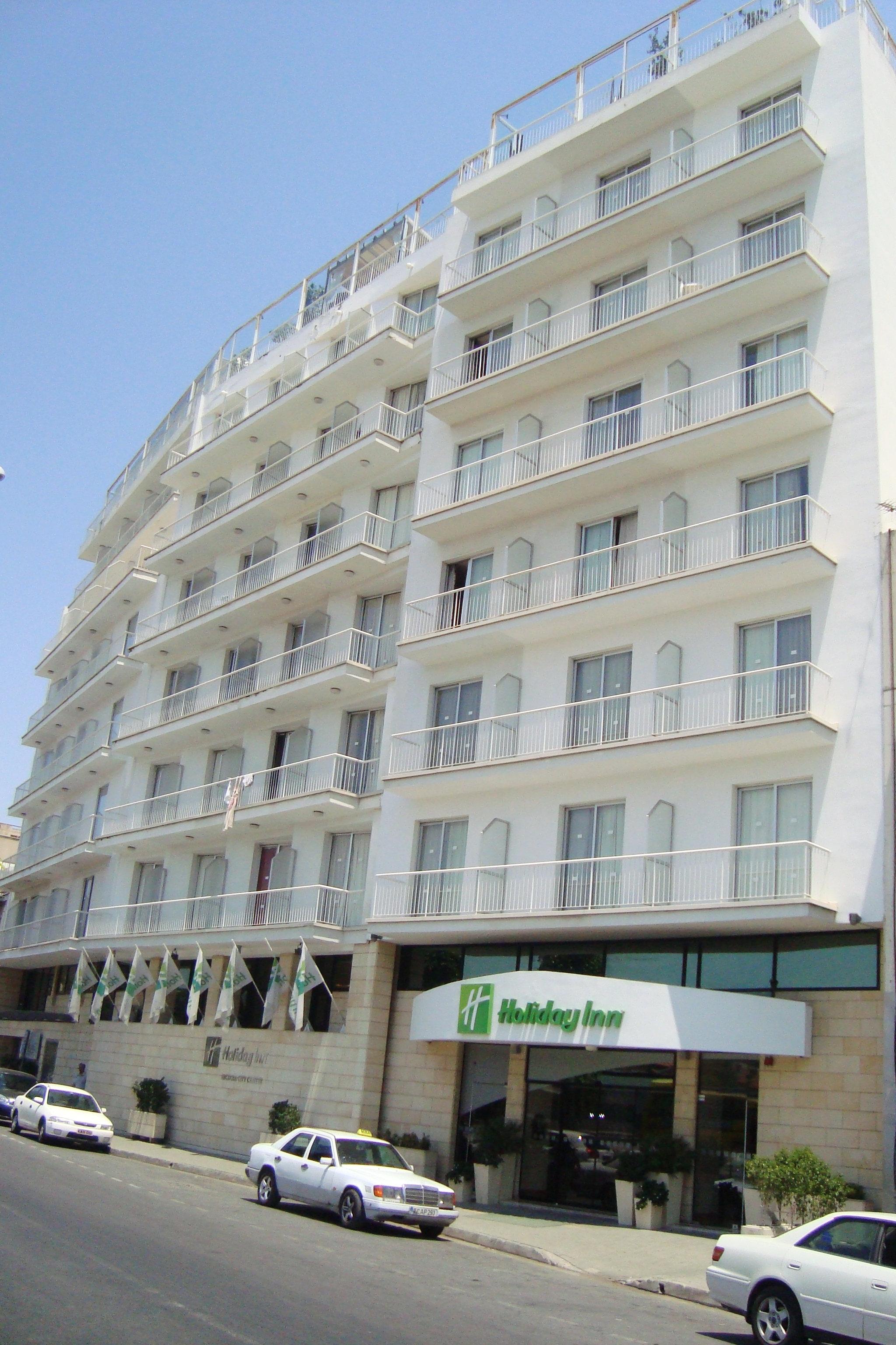 High rise building - hotel Holiday Inn in the center of Nicosia Republic of Cyprus